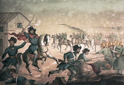 Credit: The Battle of Sant'Antonio, Uruguay in which Garibaldi participated, in 1846 (litho) / Coleccion Bertarelli, Milan, Italy / Index / The Bridgeman Art Library IND 146591 Image number: The Battle of Sant'Antonio, Uruguay in which Garibaldi participated, in 1846 (litho) Title: Coleccion Bertarelli, Milan, Italy Location: Index Credit: lithograph Medium: Latin American wars of Independence; Description: 19th (C19th) Date: The Americas Categories: Horizontal